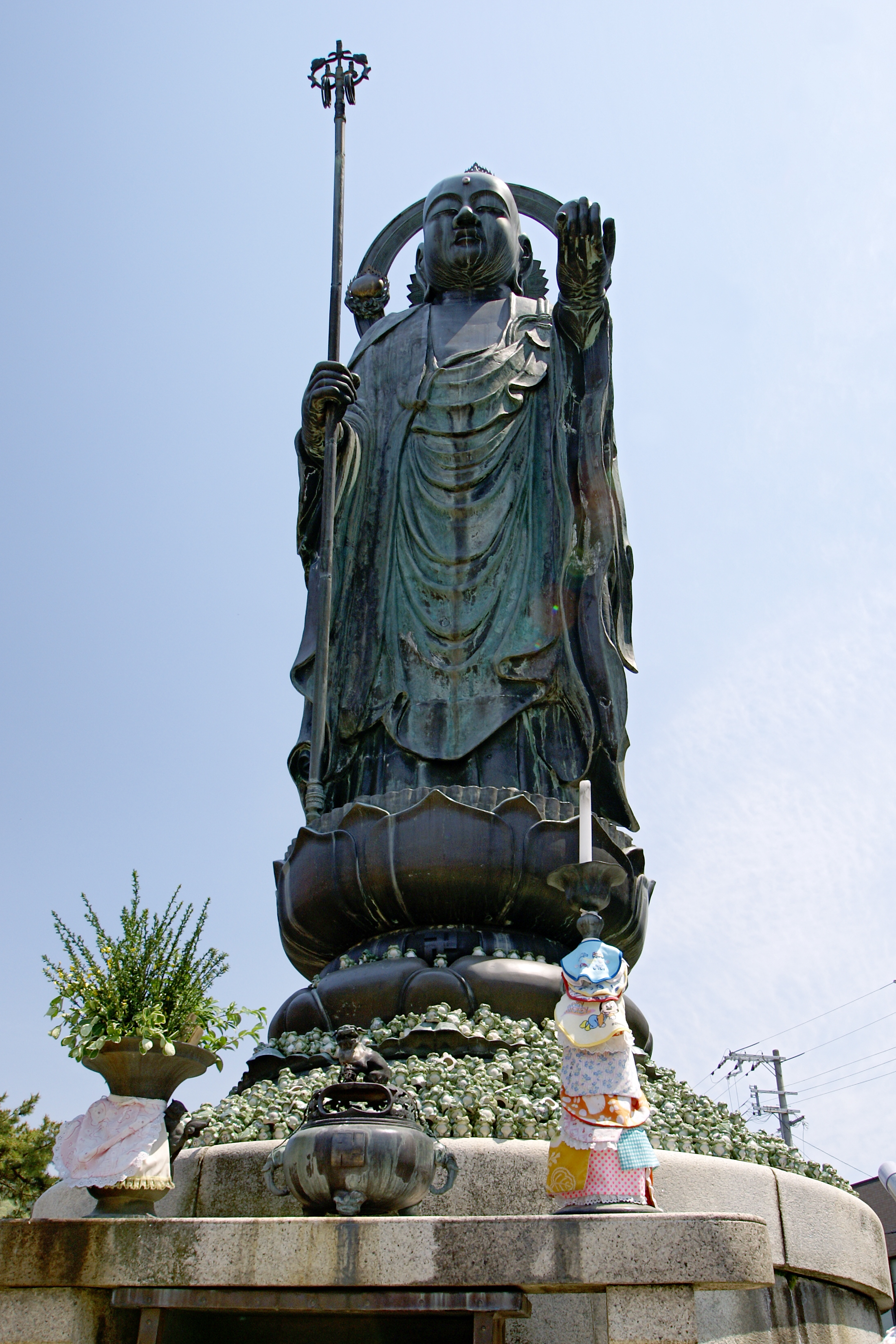 Kinomoto-Jizo-in in Kinomoto, Shiga prefecture, Japan